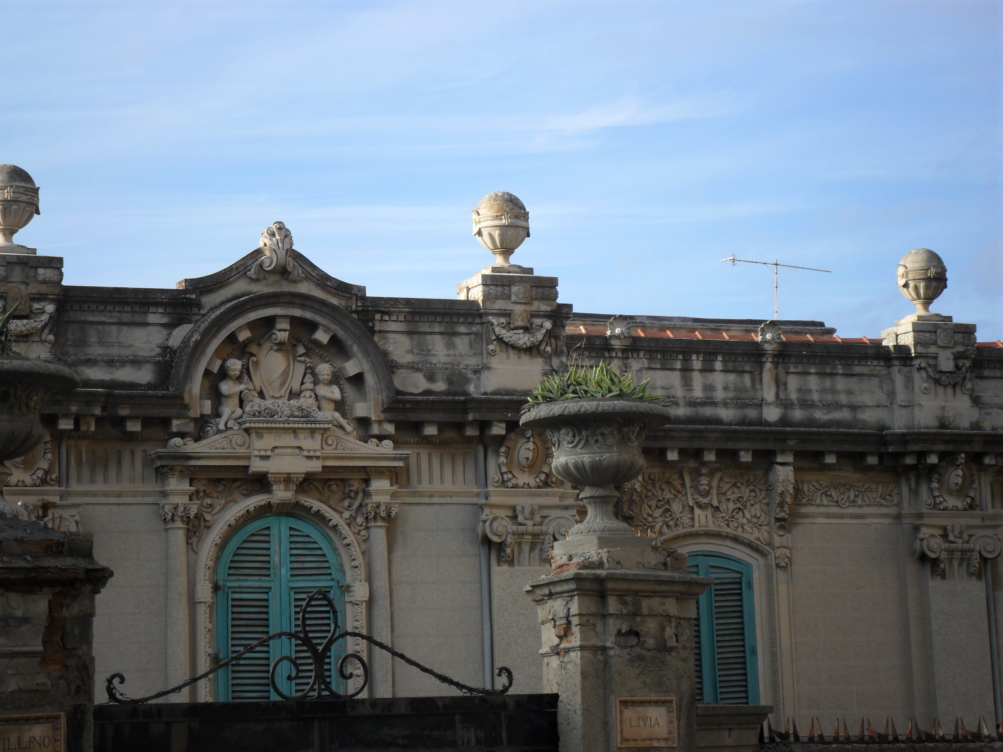 House Nesci city of Reggio C.